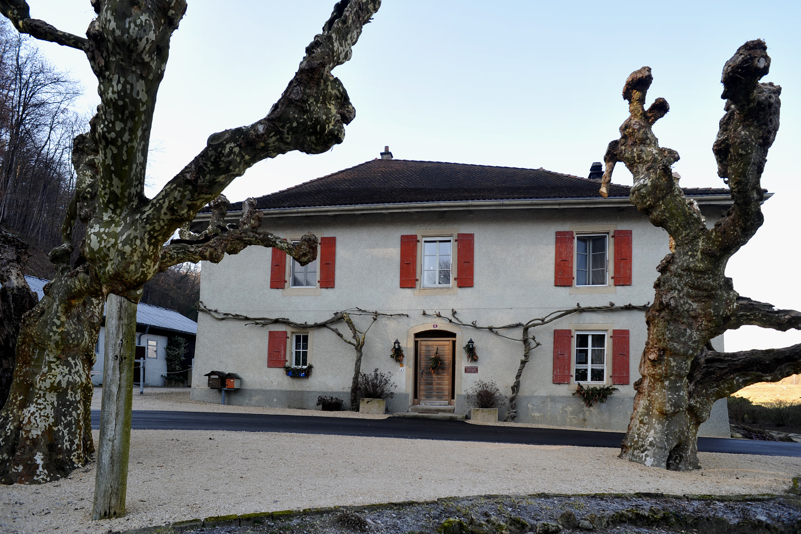 Canal d'Entreroches; Vaud, Switzerland. The former port house in Entreroches. The plane trees date back to the «active» canal time.